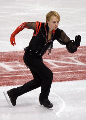 Anton Kovalevski (UKR) at the 2008 Skate Canada.